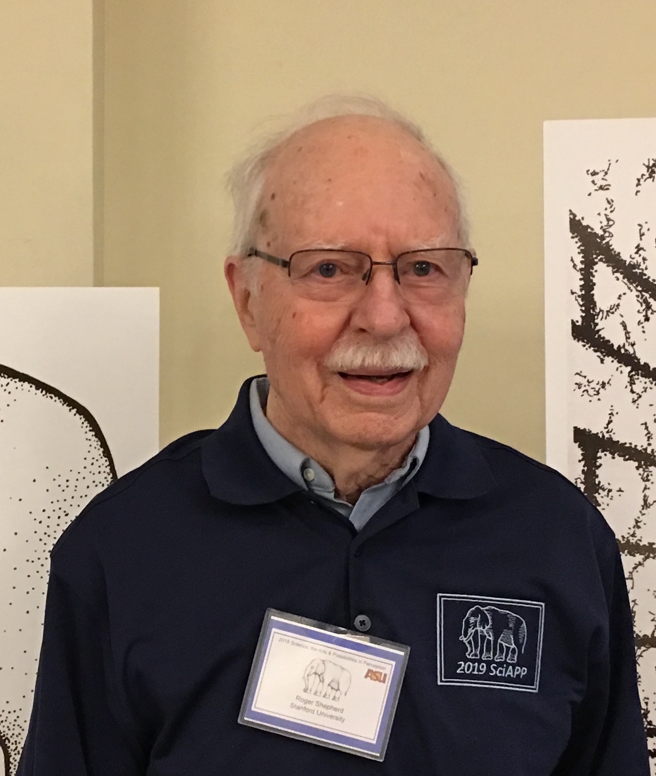 Stanford psychologist Roger Shepard at a show of his art and illusions during ASU's SciAPP conference.